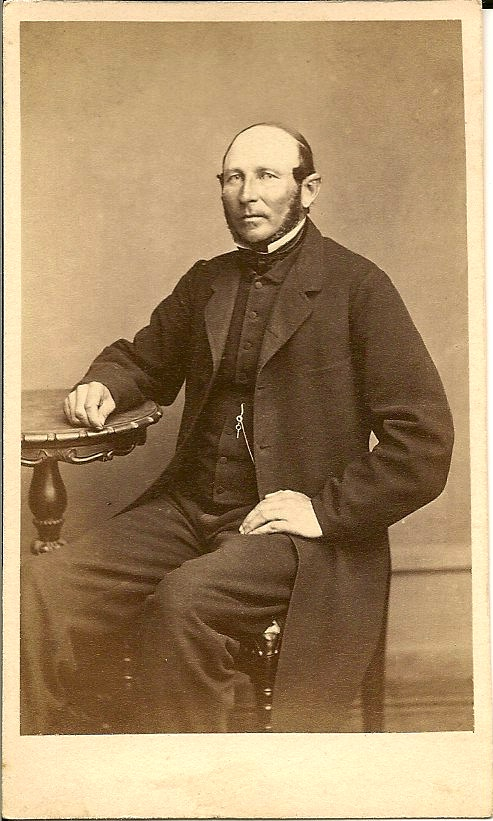 Swedish politician from late nineteenth century